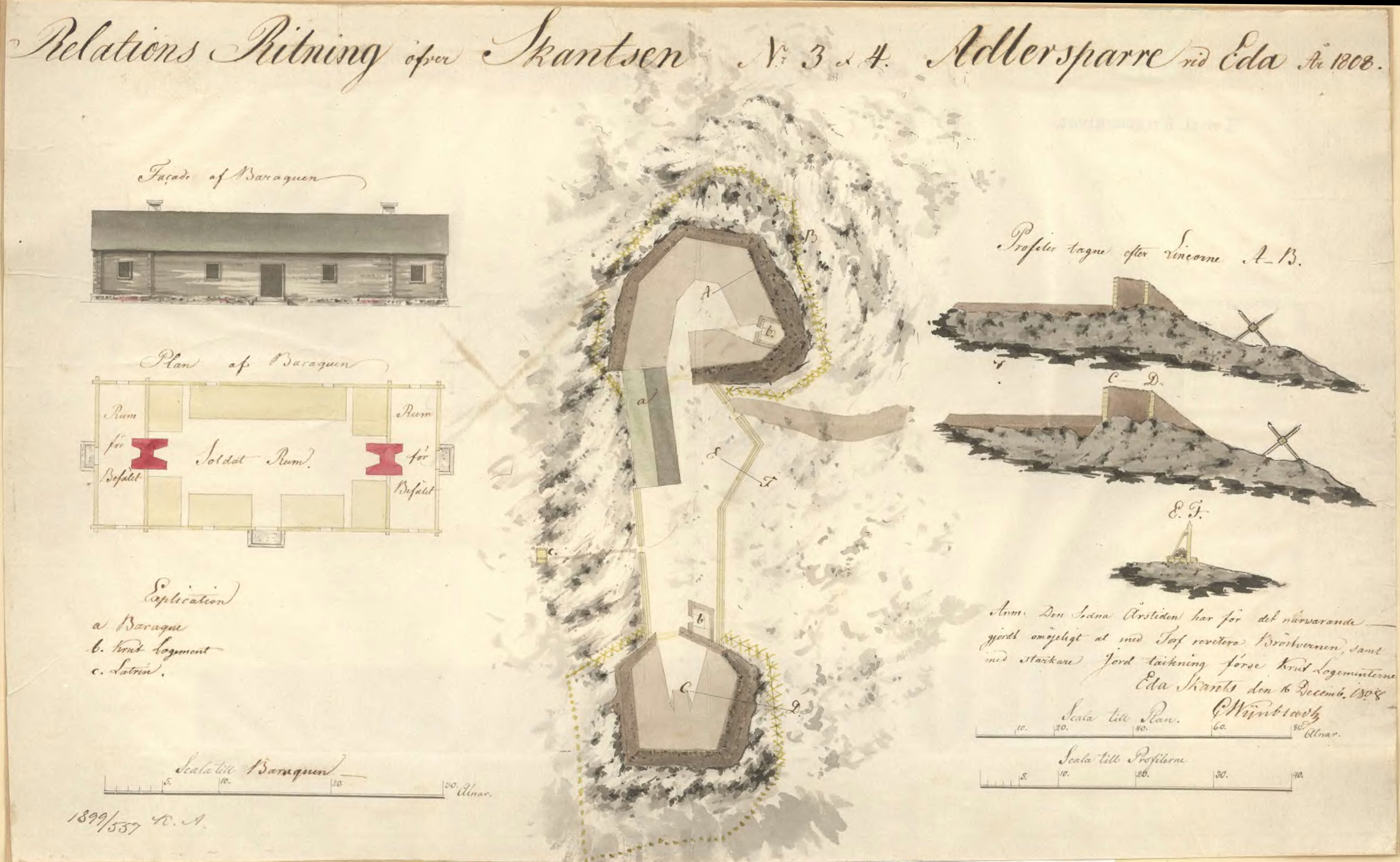 Map showing the fortification Aldersparre, close to Eda sconce, Värmland in Sweden 1808.